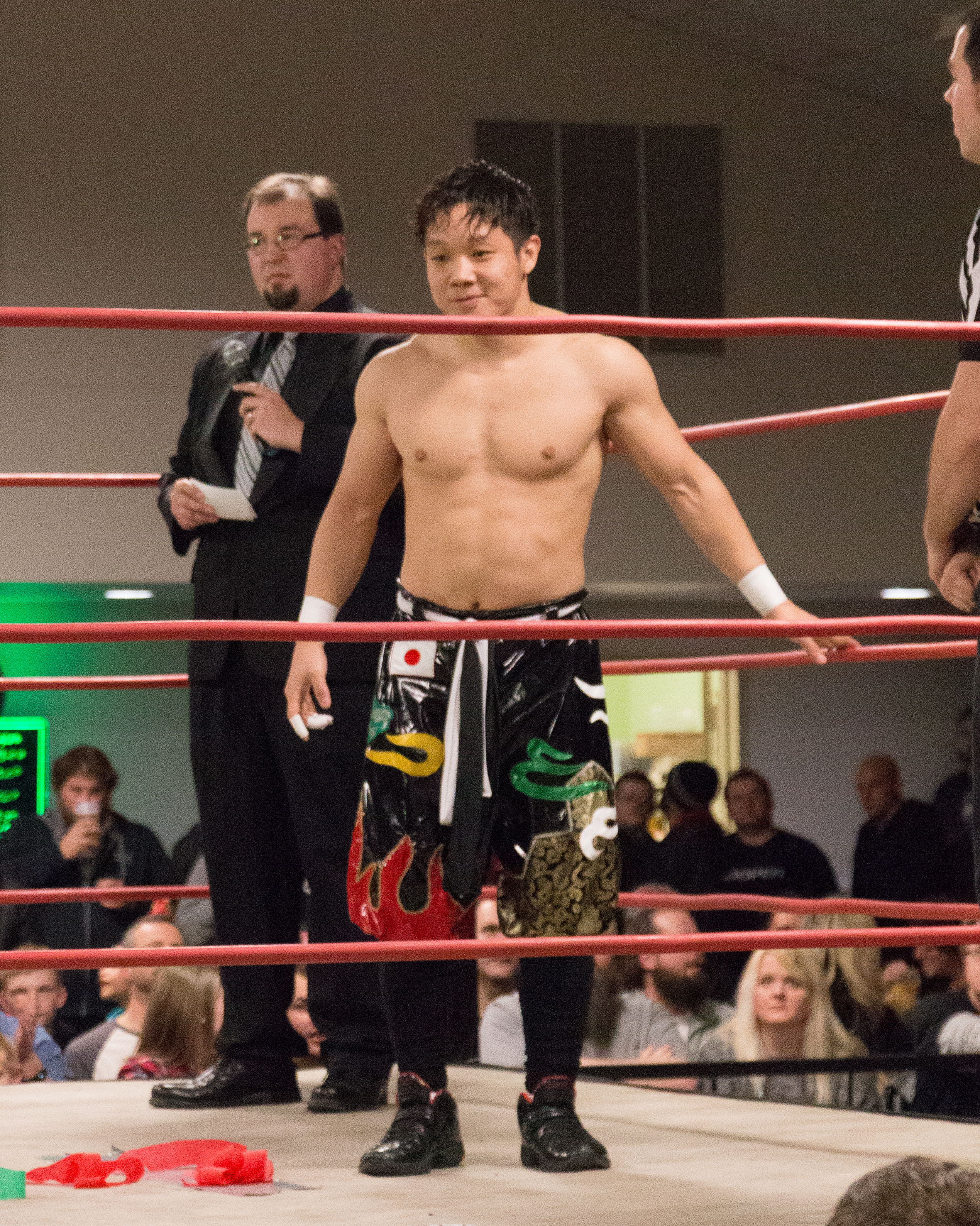 Japanese wrestler Yusuke Kodama at an Empire State Wrestling show in Niagara Falls, NY